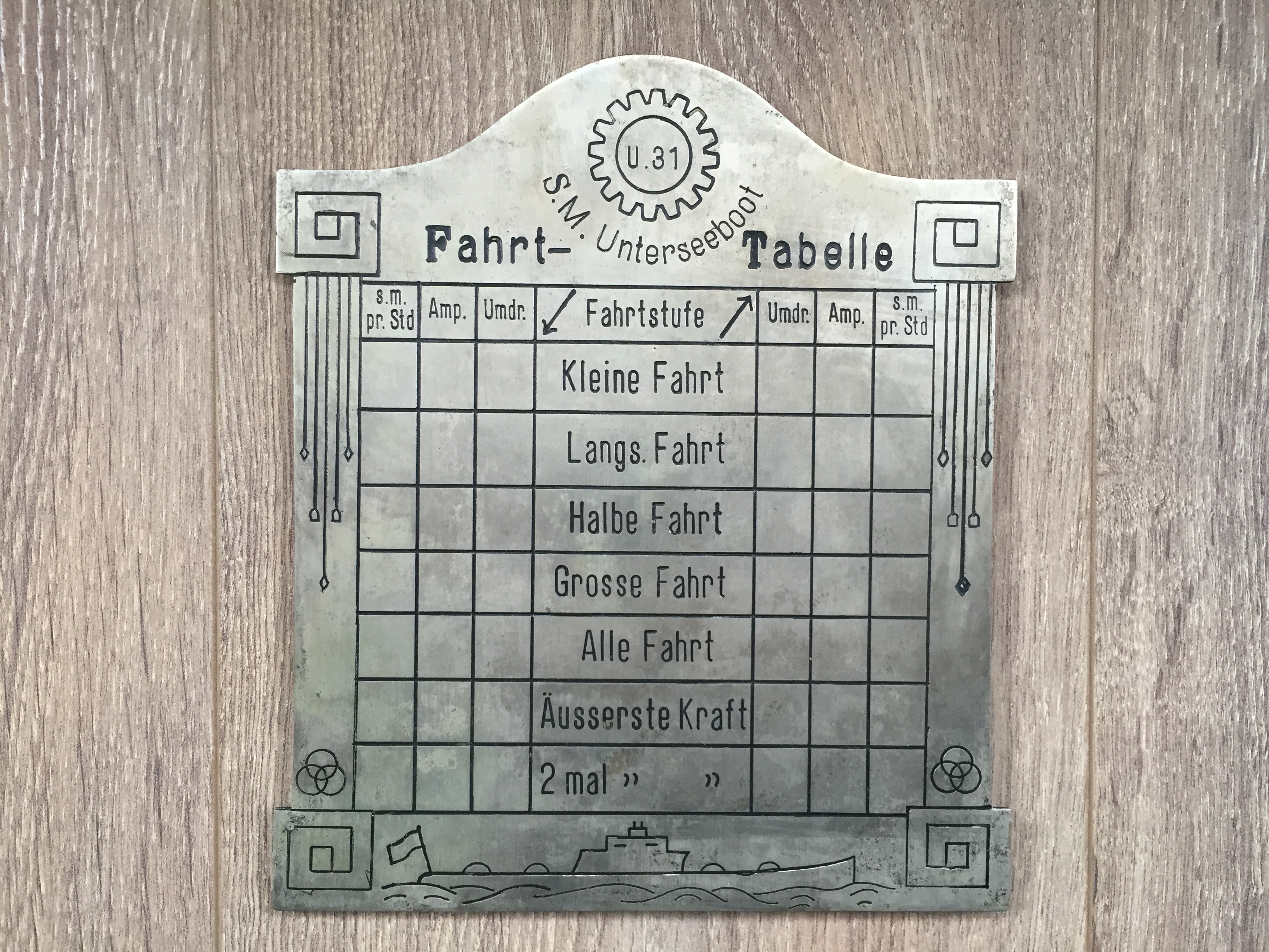 this was found to identify the u31